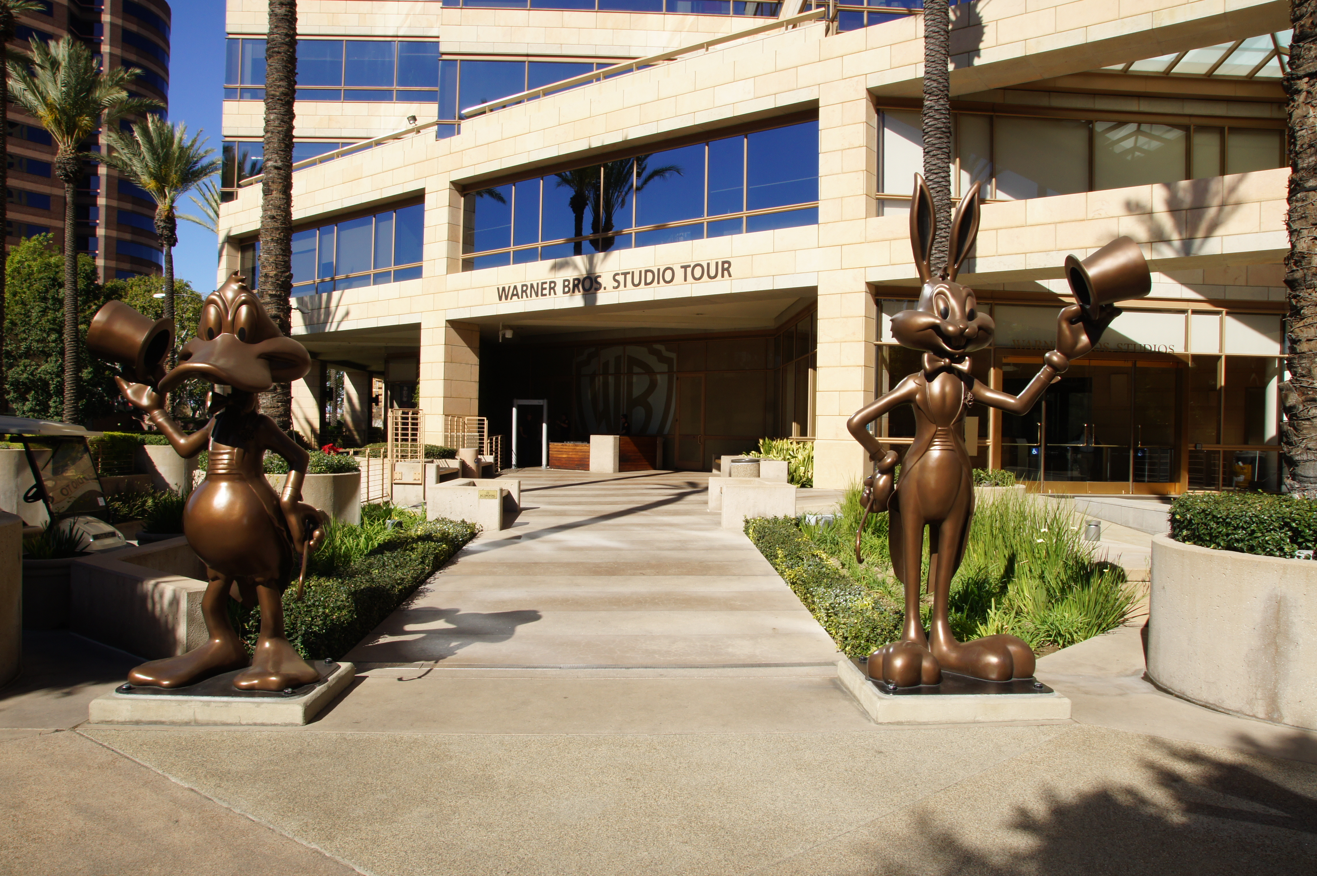 Warner Bros. Studio tour